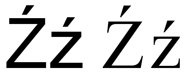 Latin_letter_Źź.